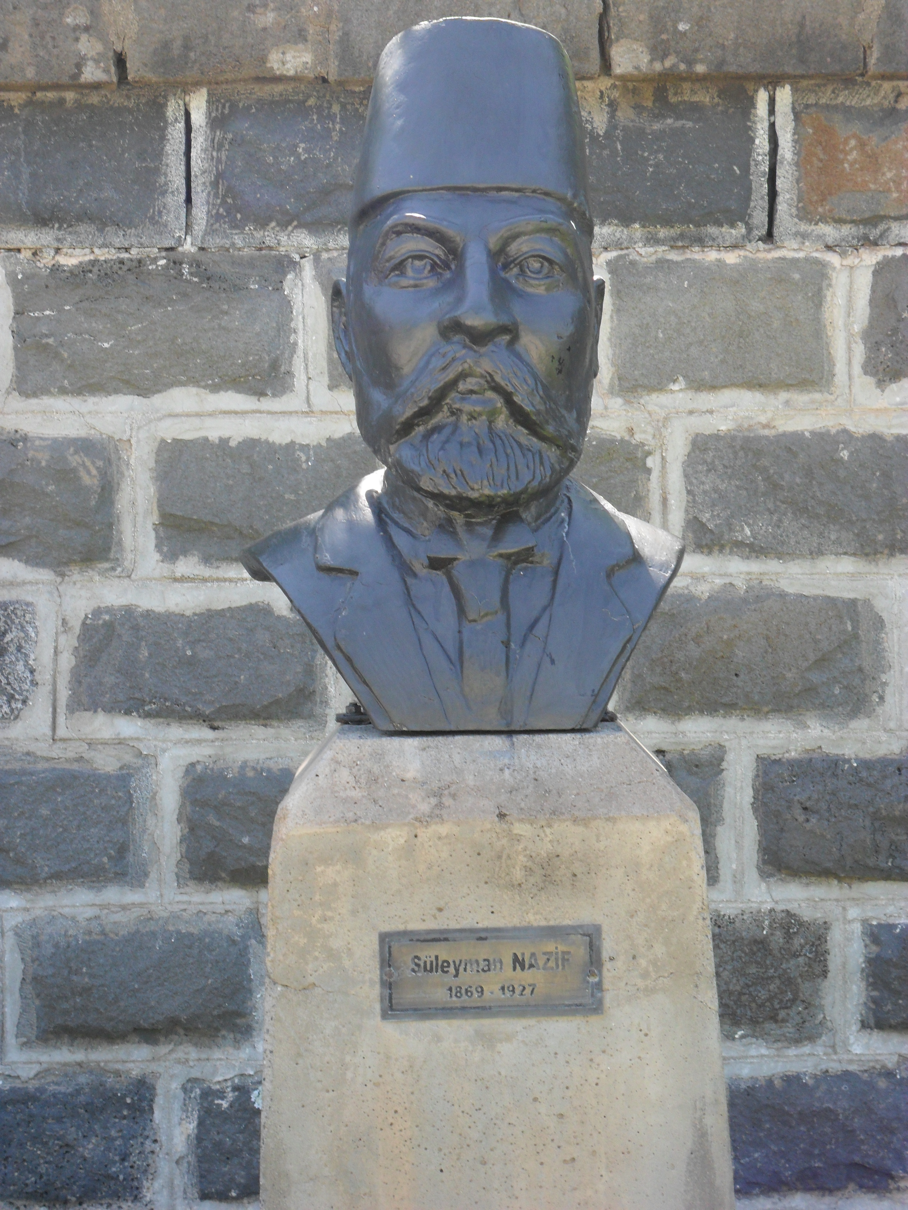 Gazi Köşkü'ndeki Süleyman Nazif'in büstü, Diyarbakır.